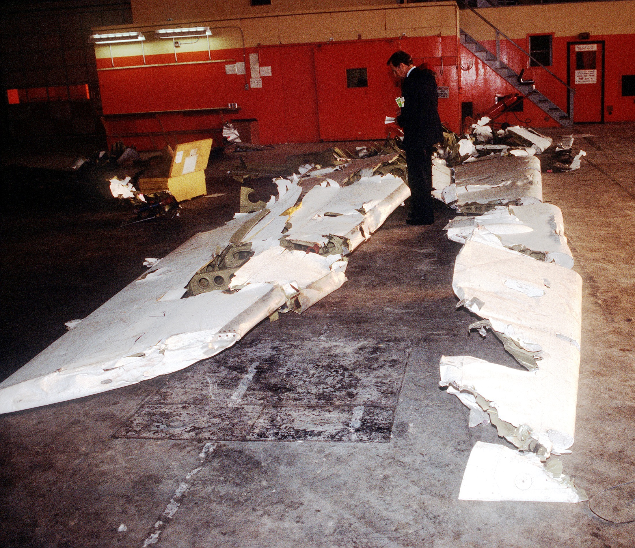 Wreckage from an Arrow Air DC-8 commercial aircraft is stored in a Gander Airport hangar for analysis by members of the Canadian Air Safety Board. The aircraft crashed at the airport with no survivors on December 12, 1985, while carrying 248 members of the 3rd Bn., 502nd Inf., 101st Airborne Div. They were returning to the United States after participating in peacekeeping duty with the Multi-national Force and Observers in the Sinai Desert.